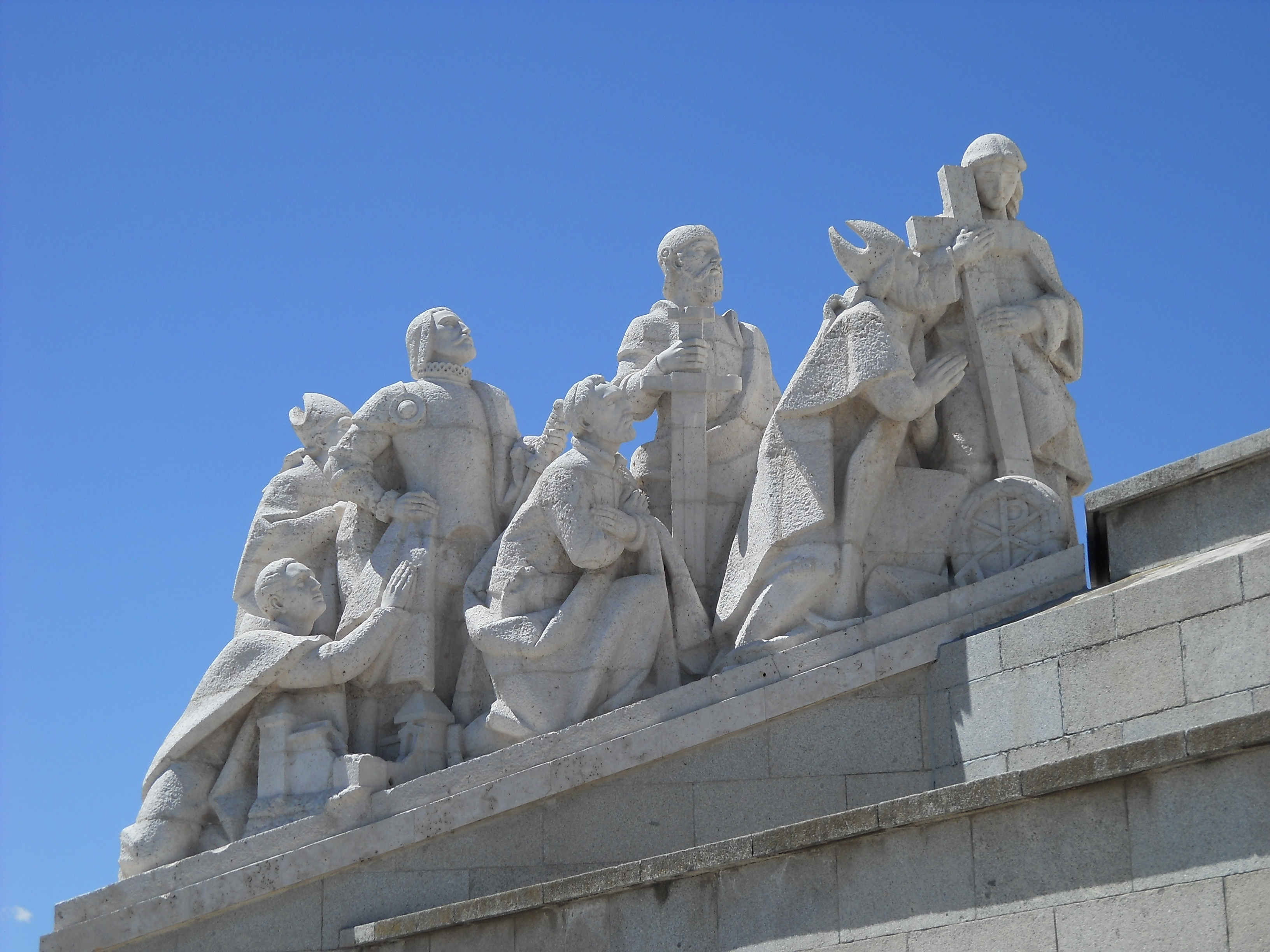 Monument of the Sacred Heart, Cerro de los Ángeles, Getafe, Madrid, Spain: "Spain defender of the faith"